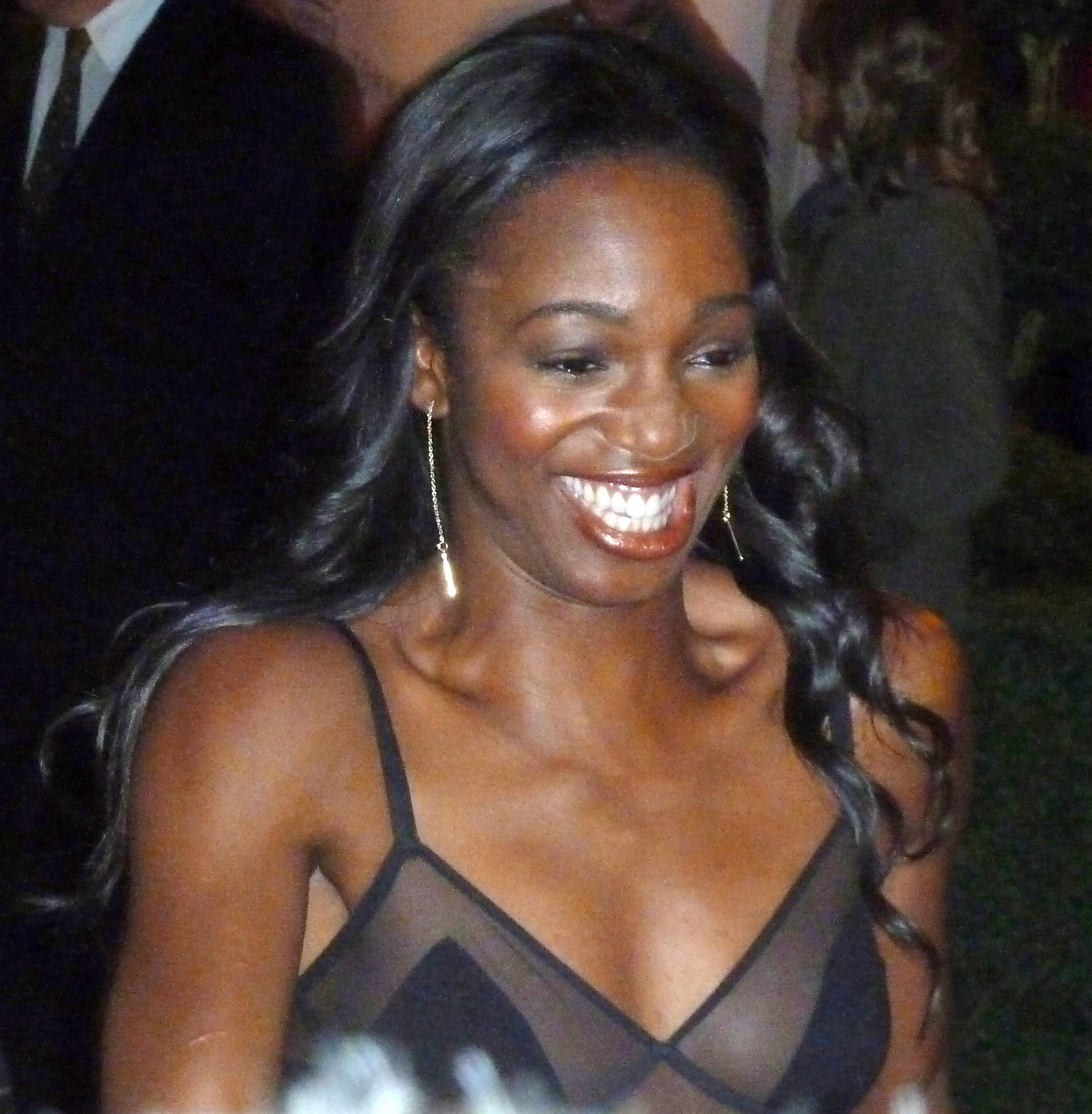 Enuka Okuma at the Toronto International Film Festival 2011.